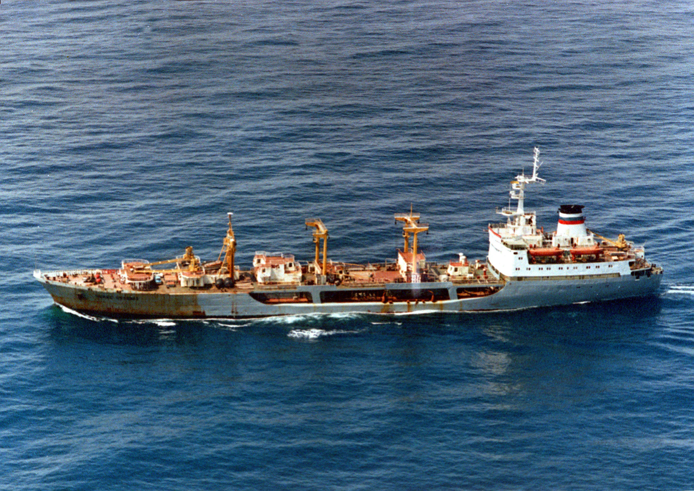 A port beam view of the Russian navy's Pacific Fleet Boris Chilikin-class replenishment oiler Boris Butoma underway.